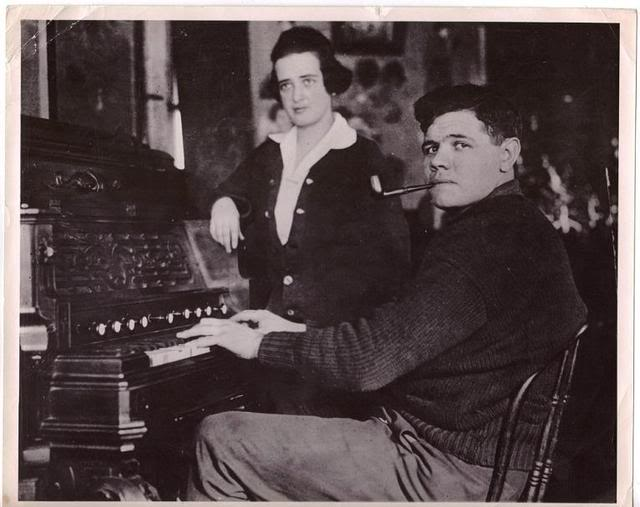 American baseball player Babe Ruth smokes a pipe as he plays a piano while his wife, Helen Ruth (nee Woodford, 1897 - 1929) stands next to him.